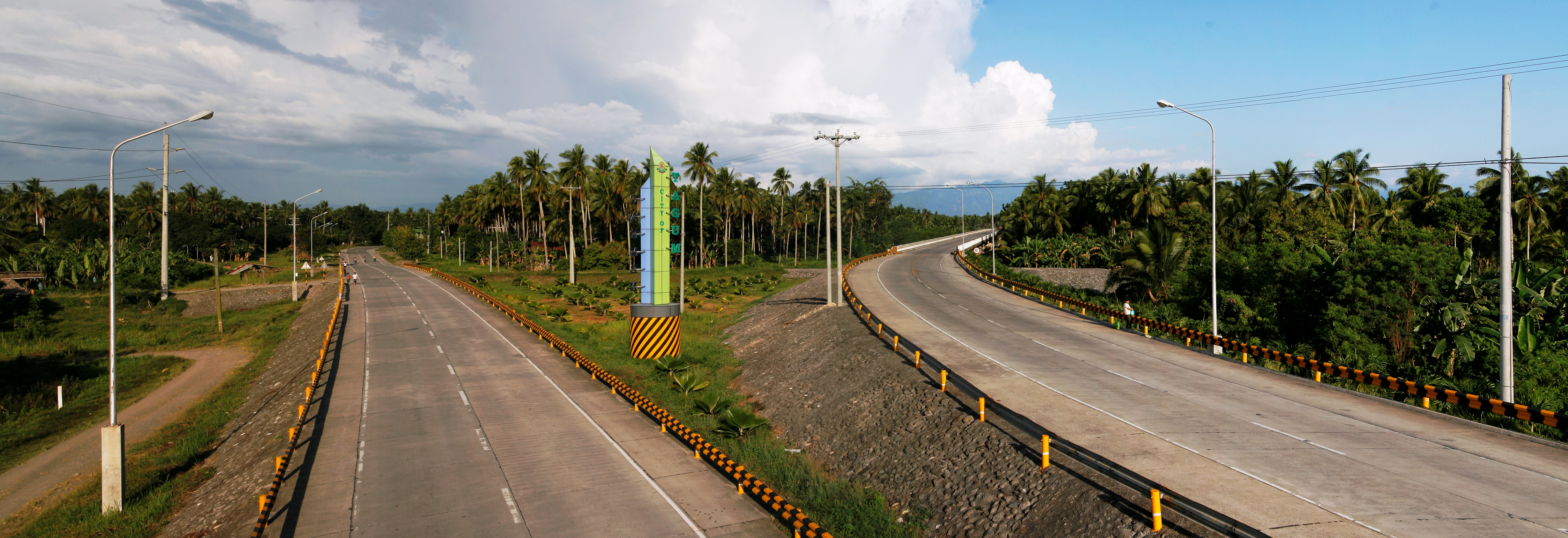 Maharlika Highway going to Municipality of Carmen from (left) and to City of Tagum (right) passing Gov. Generoso Bridge 2.